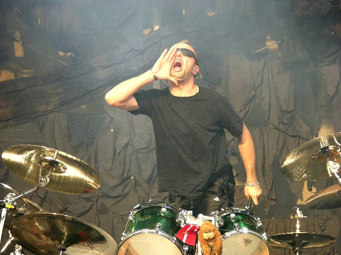 on photo Lars Ulrich (drums) member of Metallica - heavy metal band